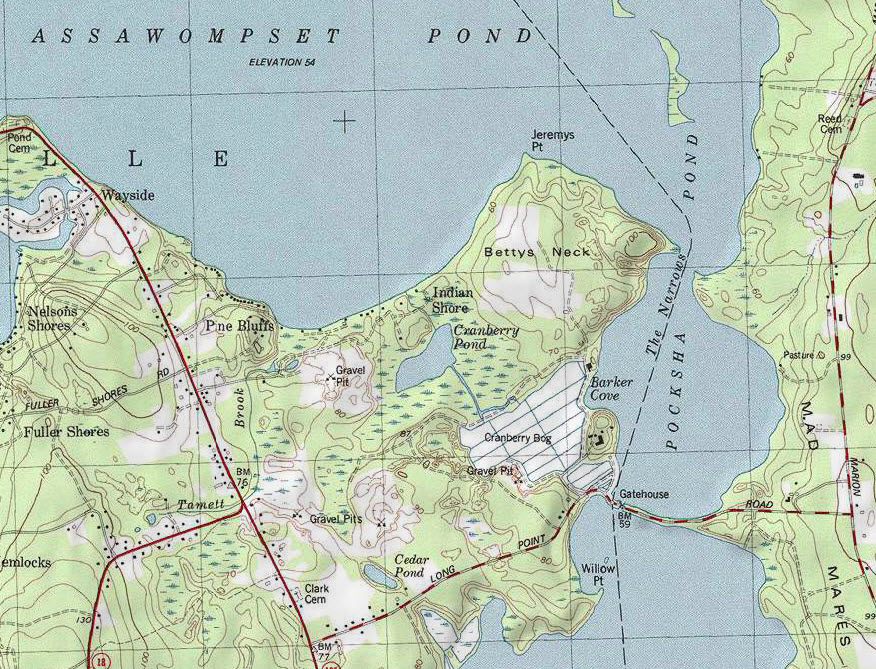 Topographic map of Pocksha Pond, Lakeville, Massachusetts